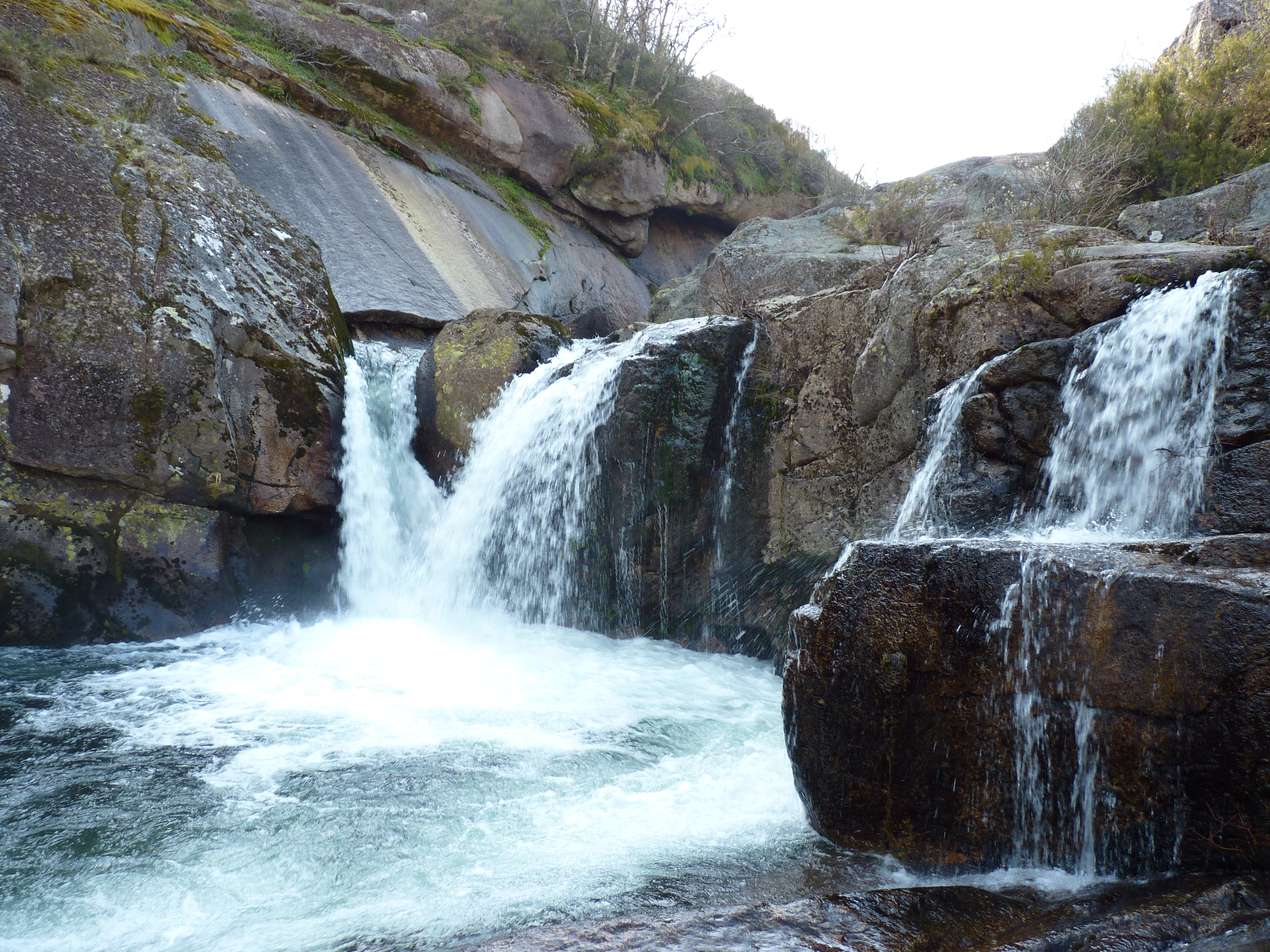 River Castro Laboreiro waterfalls.